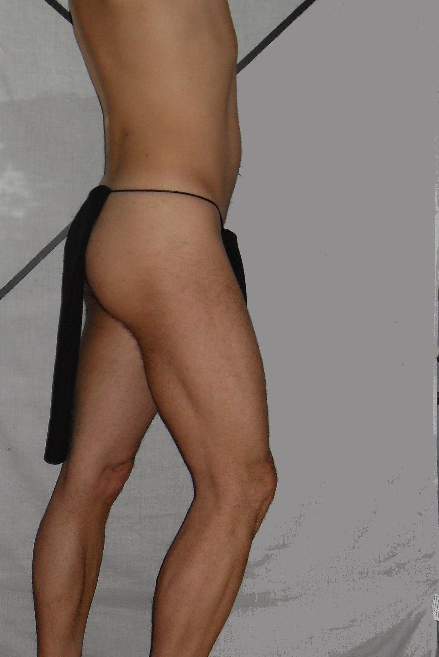 Man with black loincloth held in place by leather strap